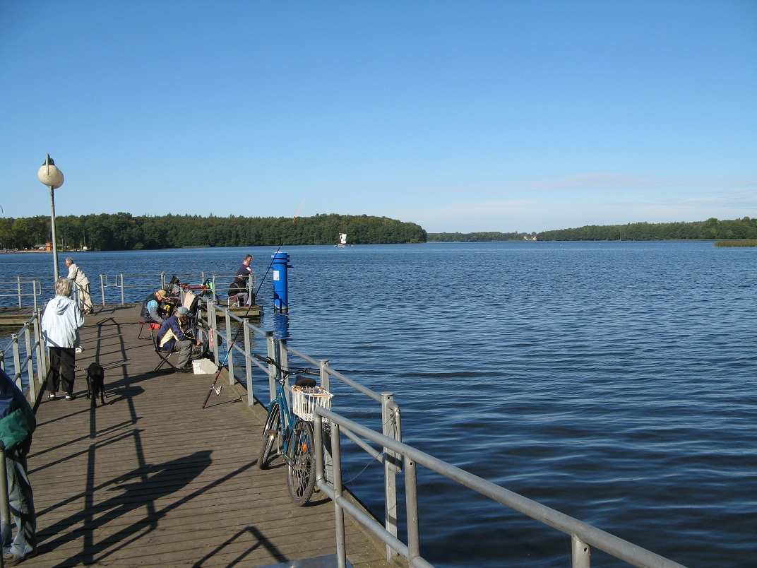 Szczecinek, Trzesiecko Lake, Boat Dock-Hotel Resiedence